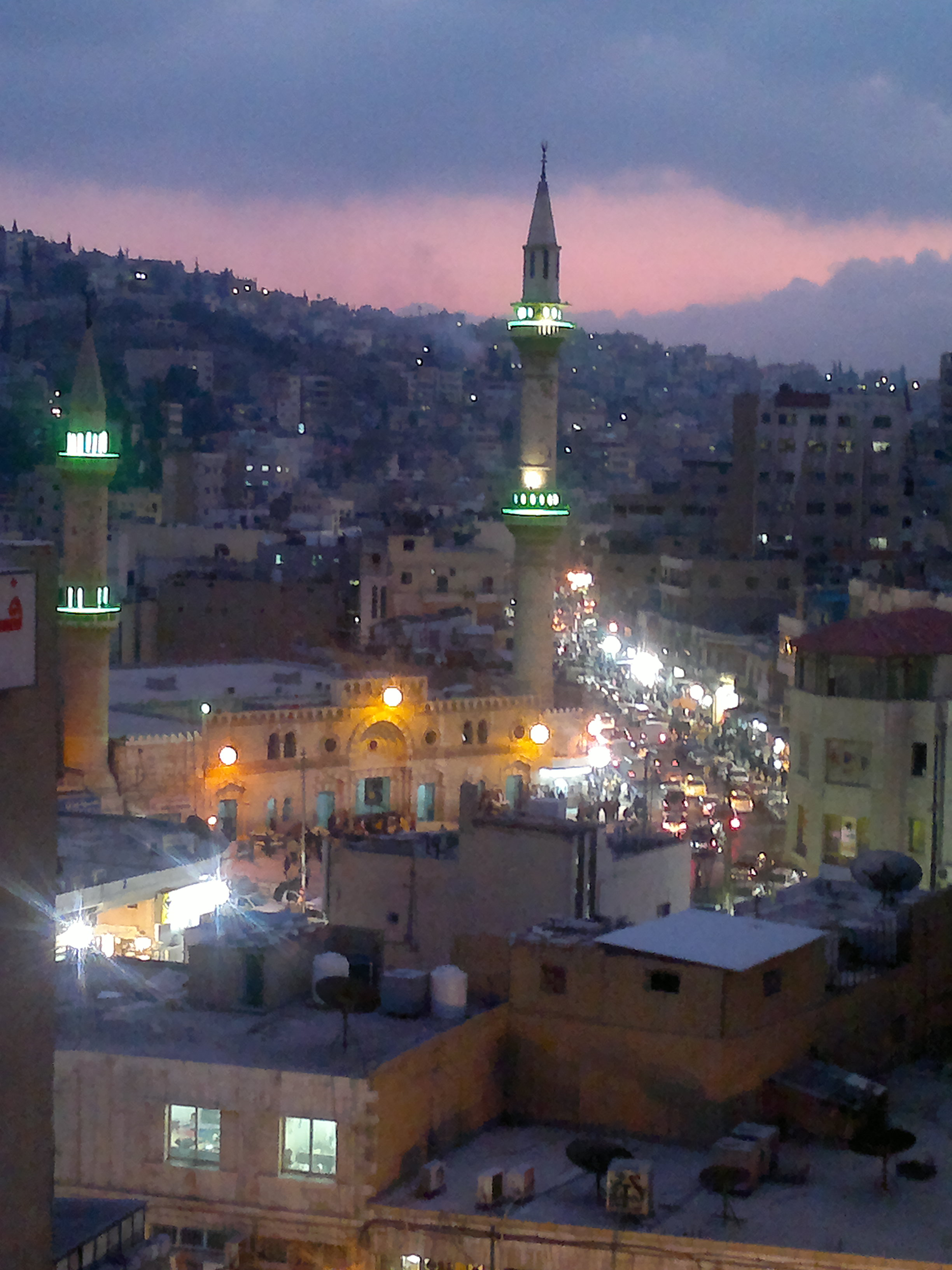 Al-Husseini Mosque at dusk. Amman, Jordan.